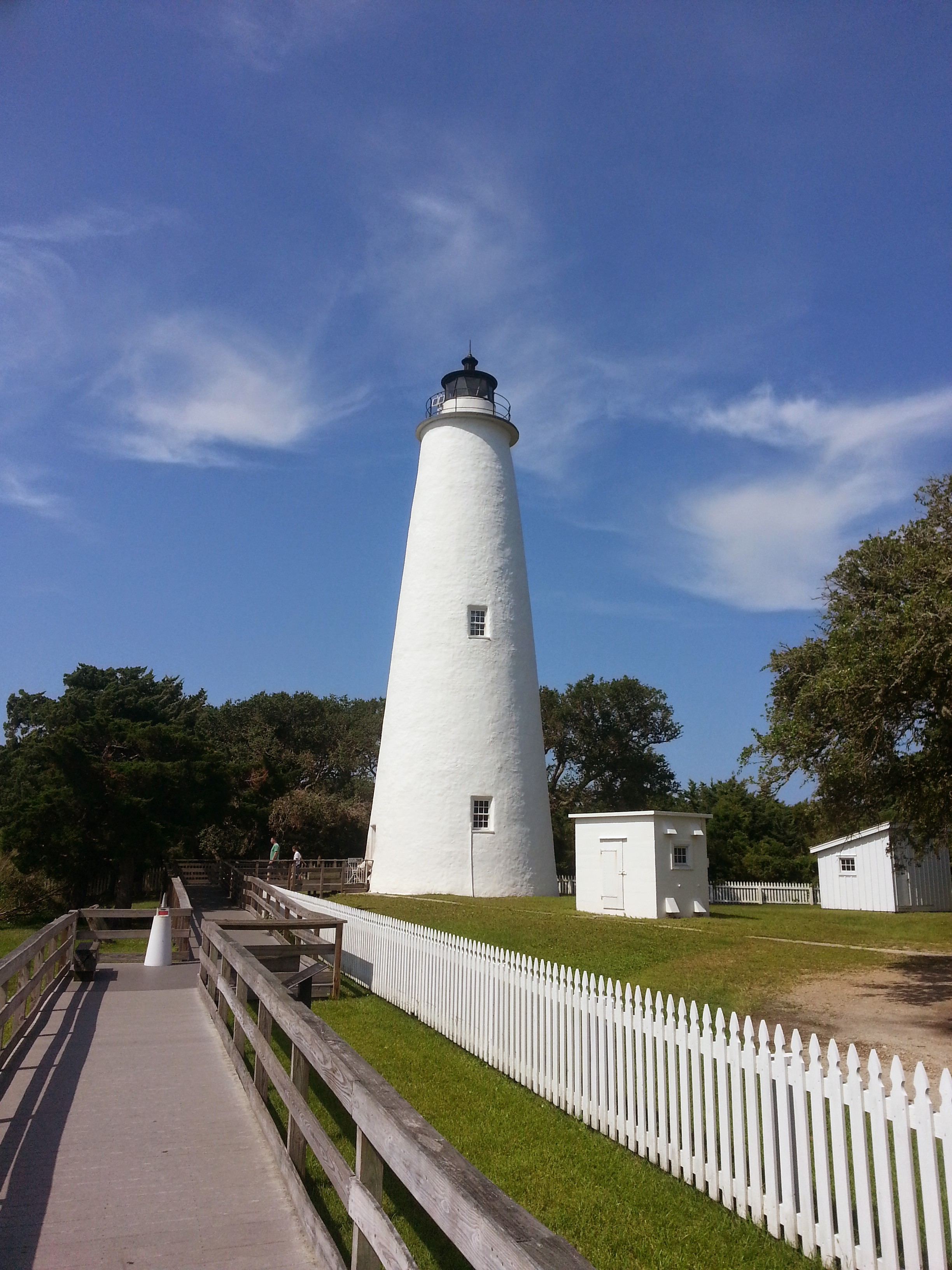 Ocracoke Light Station, SR 1326 Ocracoke